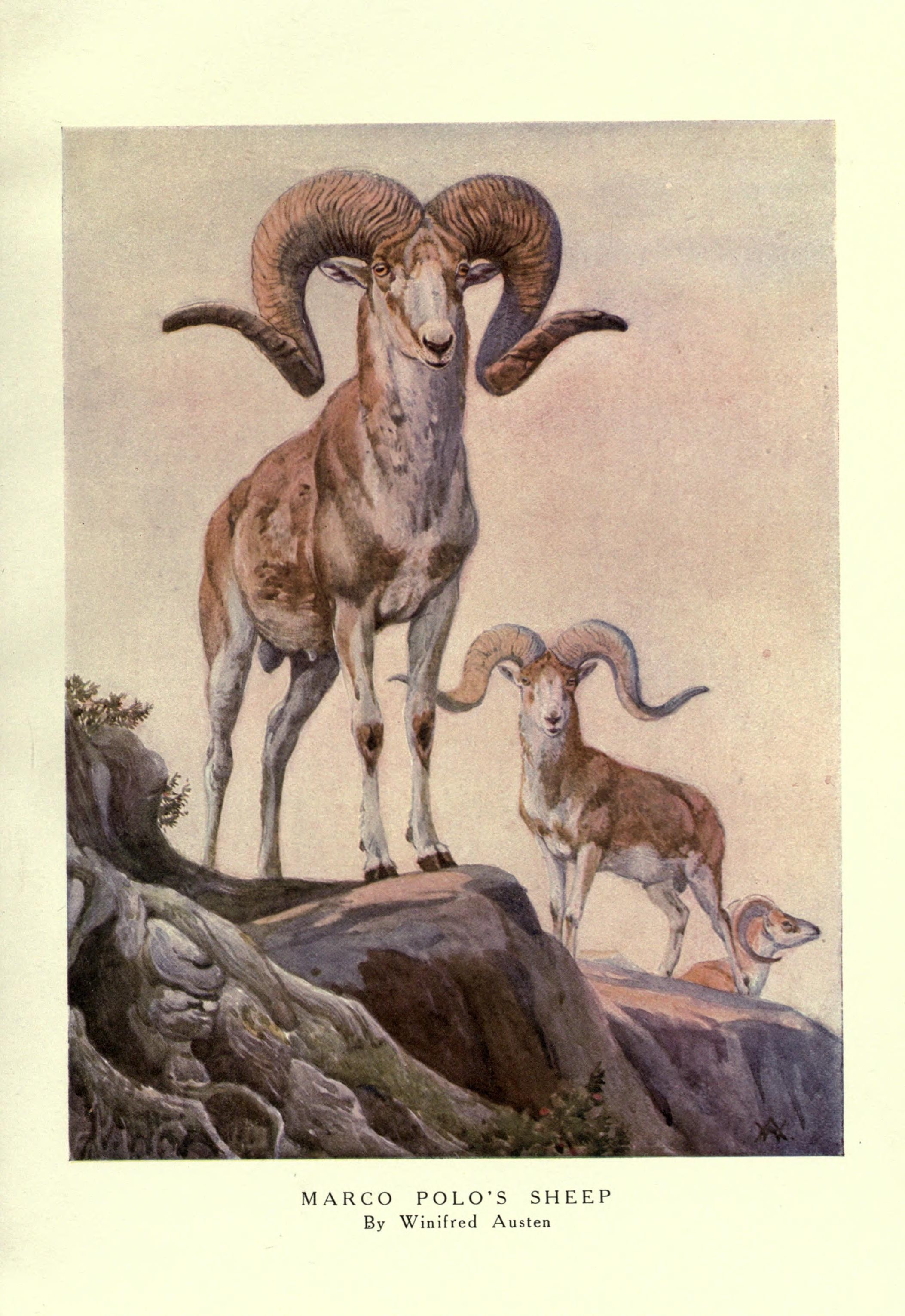 MARCO POLO'S SHEEP By Winifred Austen